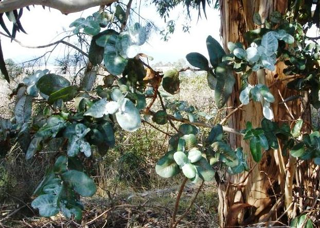 HelloMojo 05:08, 15 April 2007 (UTC)